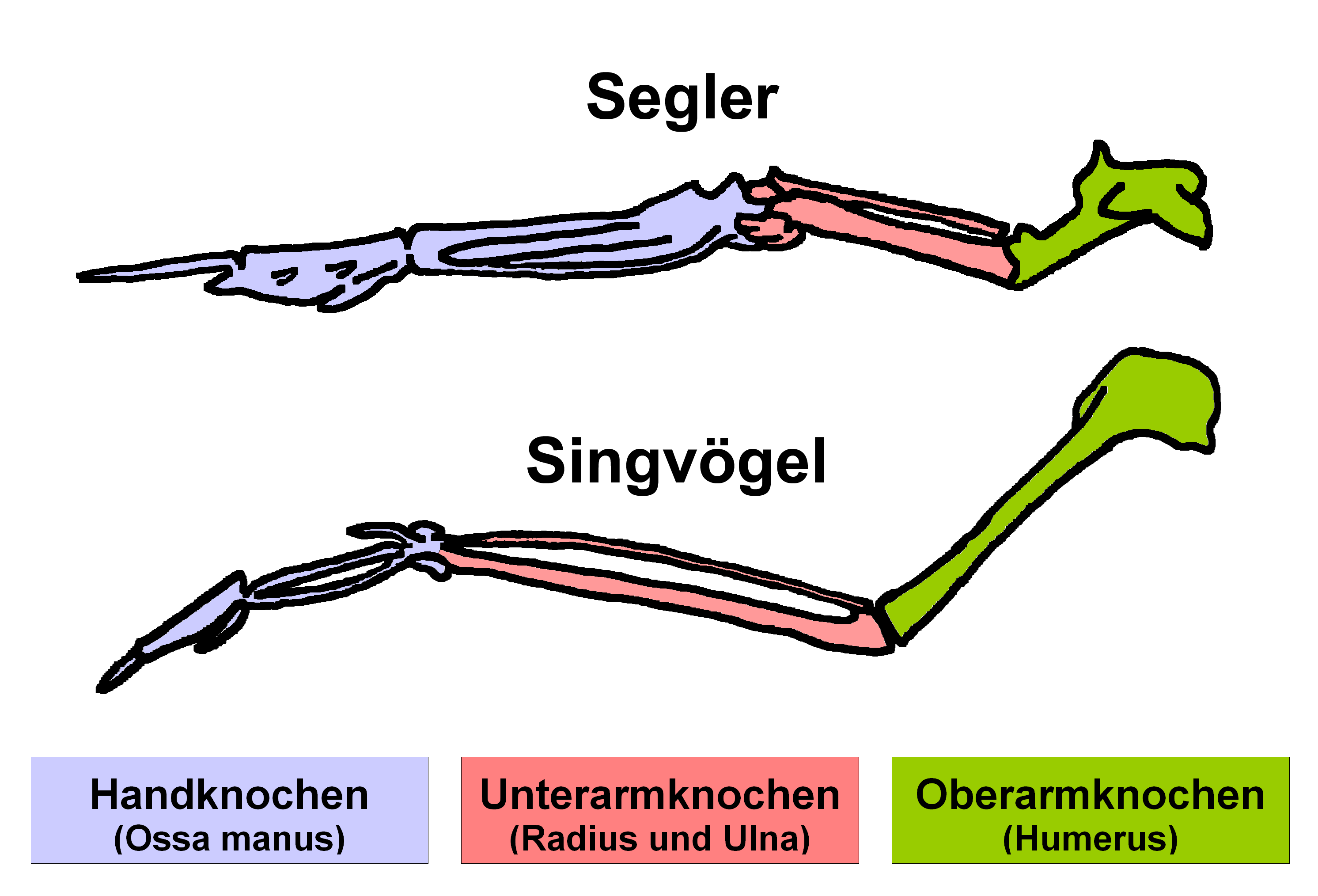 Wing bones of swift (upper) and passerine (lower)